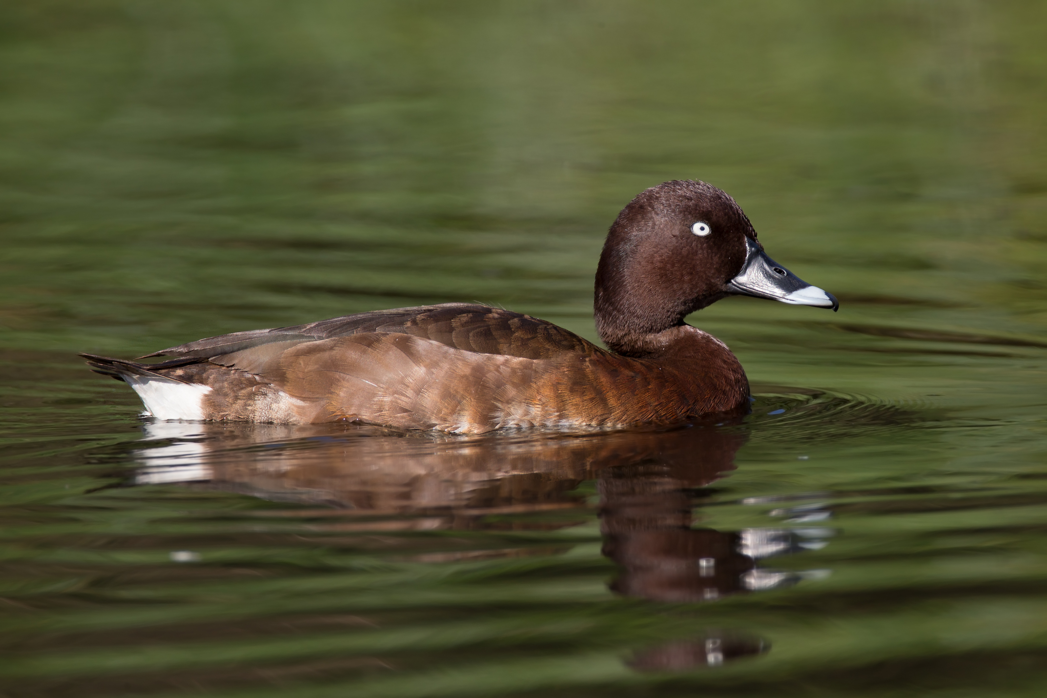 Hardhead (Aythya australis) male, Hurstville Golf Course, New South Wales, Australia